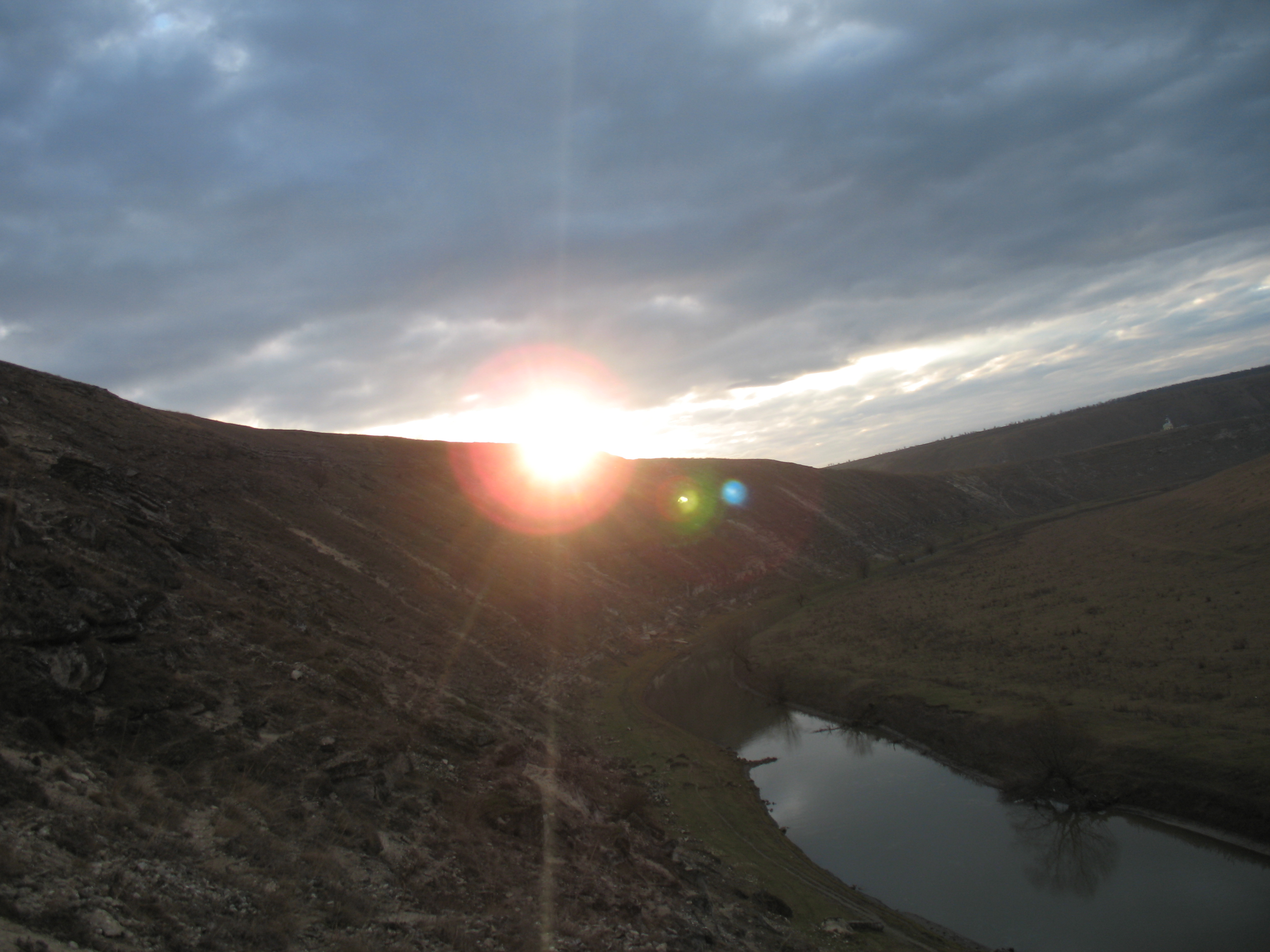 Reut river near Butuceni, Orhei country, Moldova